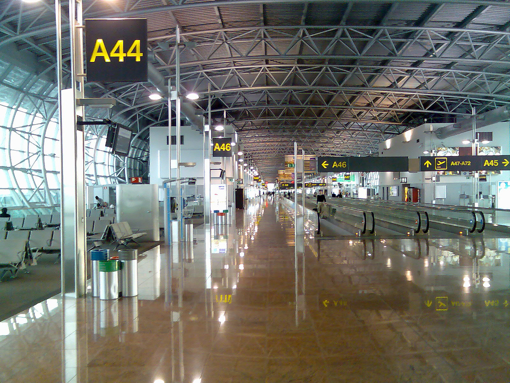 The gates at Brussels Airport, Pier A. (Apparently previously mislabelled as Frankfurt.)